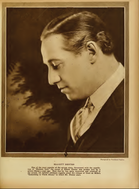 Elliott Dexter Motion Picture Classic 1920